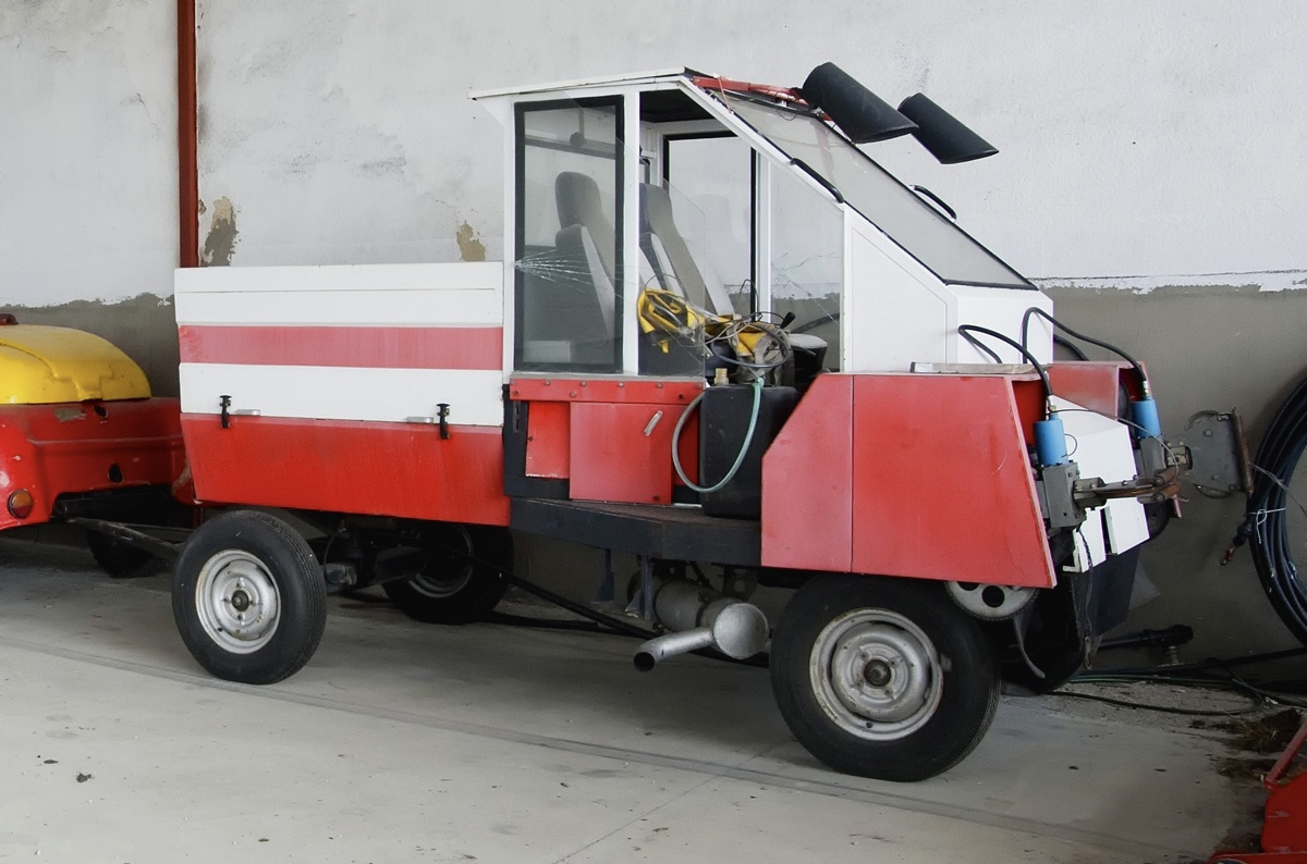 The Herkules-IV, a winch for wire-launching gliders, commonly used in the GDR.